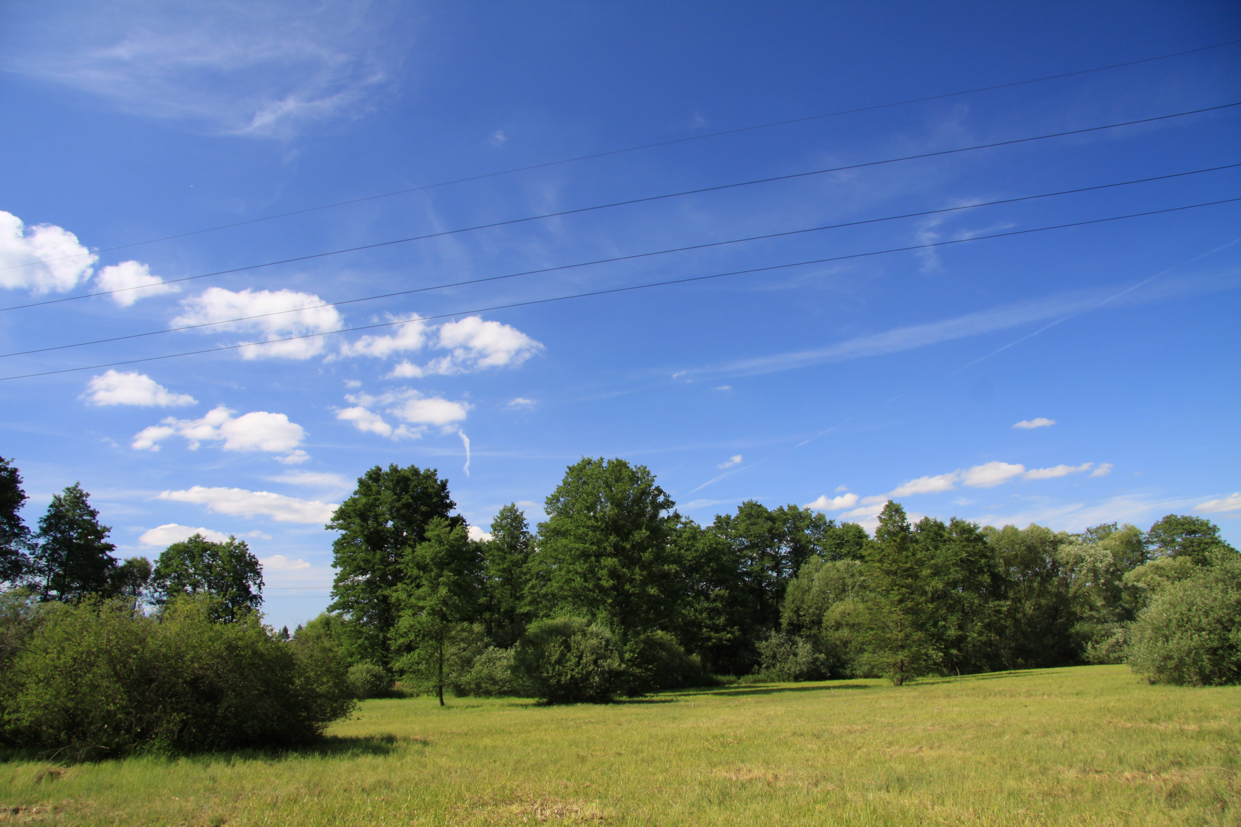 Natural monument Kejtovské louky eastern from Obrataň village, Pelhřimov District, Czech Republic - Google Maps - Google Earth